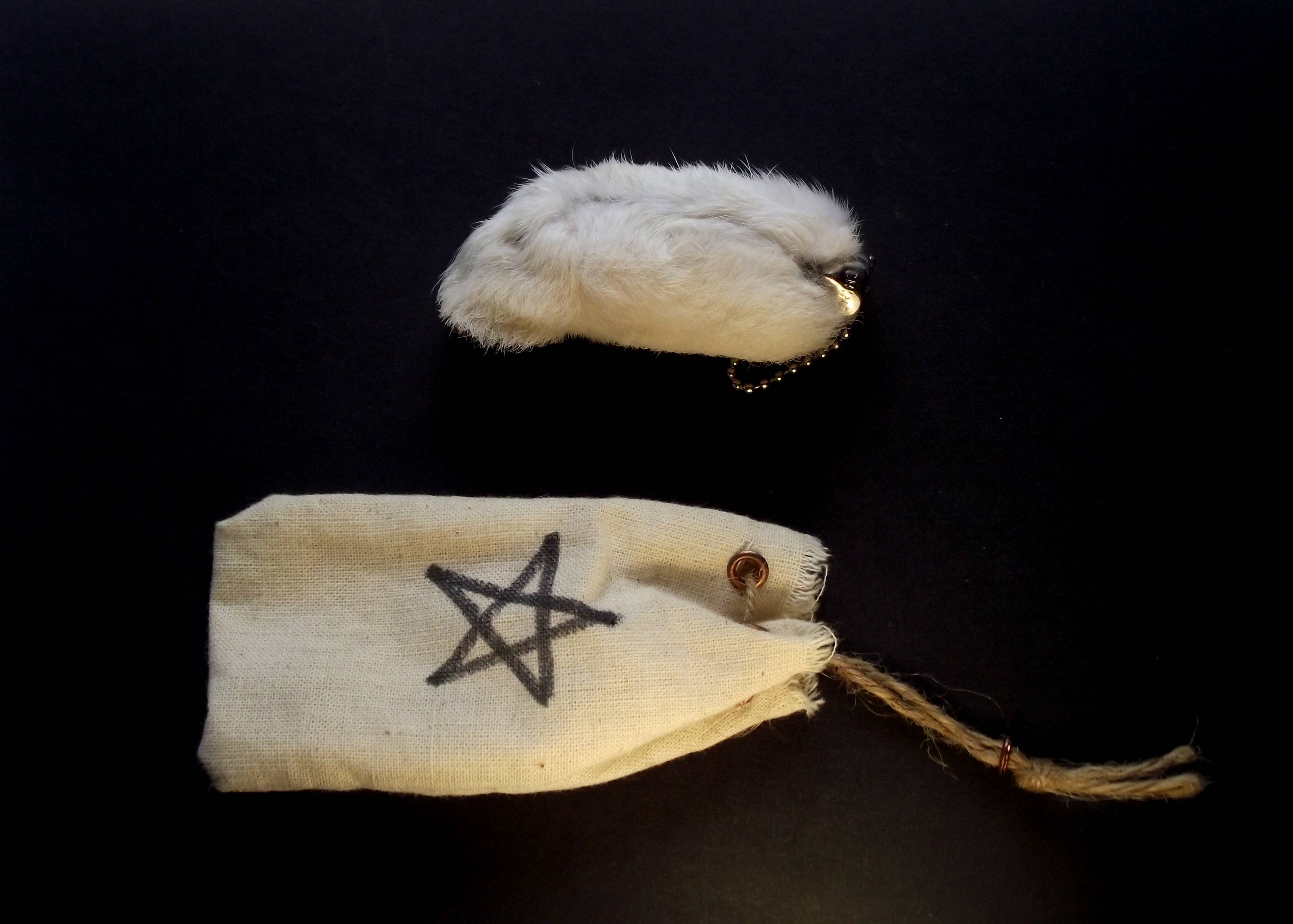 From Mal Corvus Witchcraft & Folklore artefact private collection owned by Malcolm Lidbury (aka Pink Pasty) Witchcraft Tools